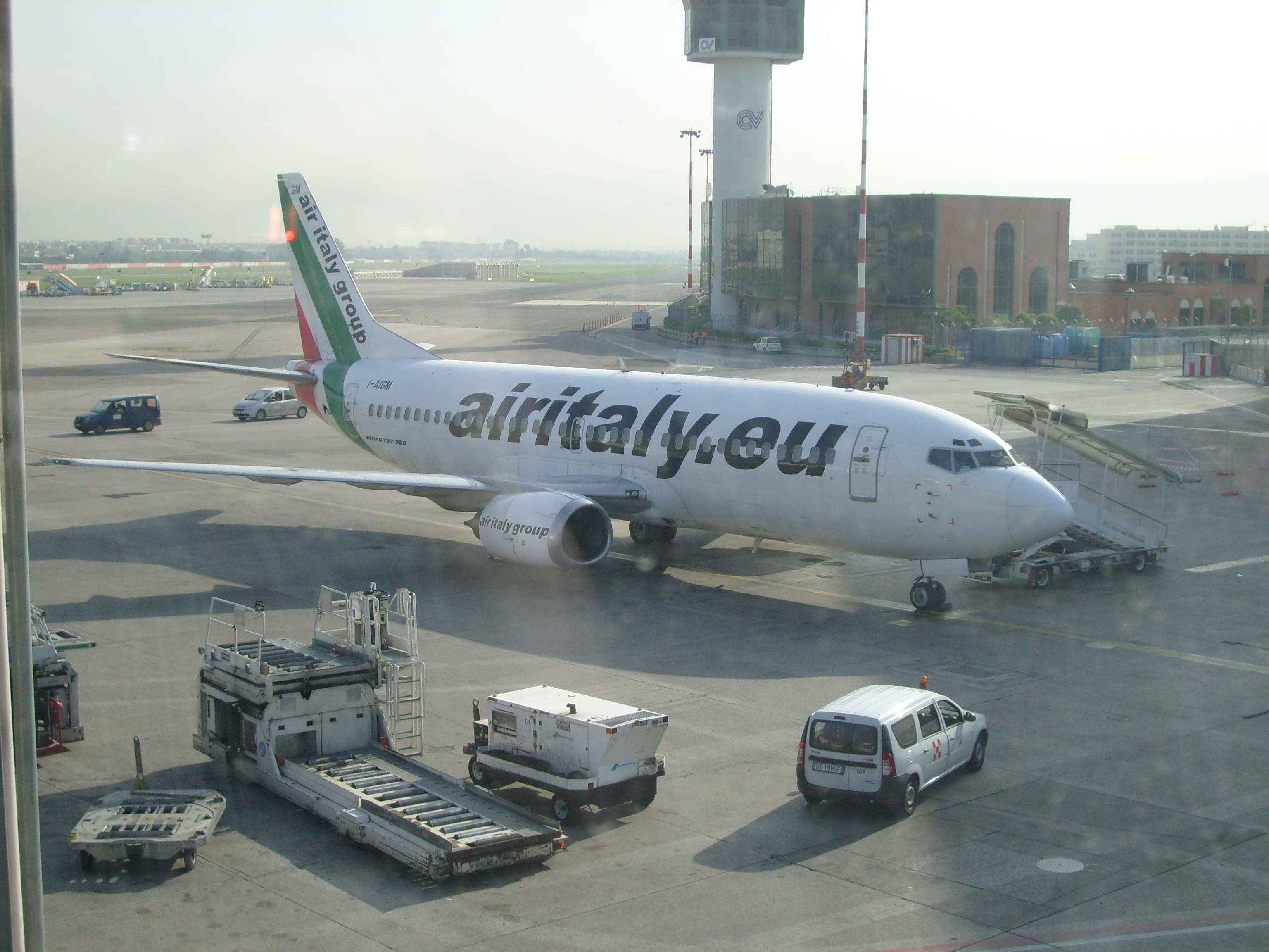 Airport Napoli Capodichino Apron